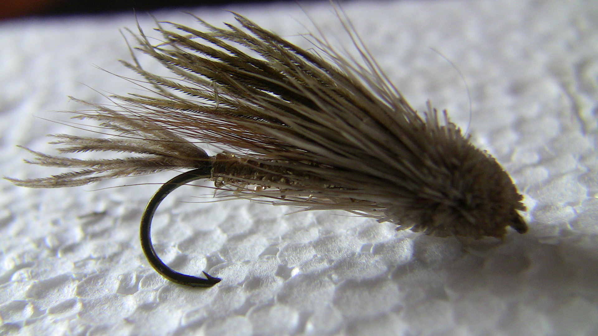 A natural looking muddler minnow fly pattern.